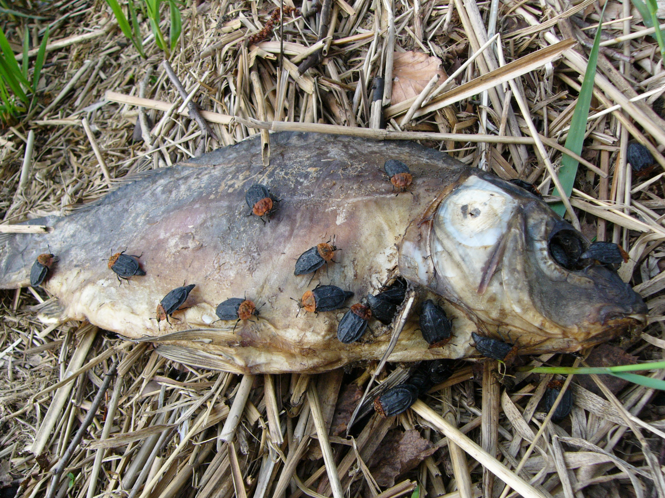 Oiceoptoma thoracicum on dead fish